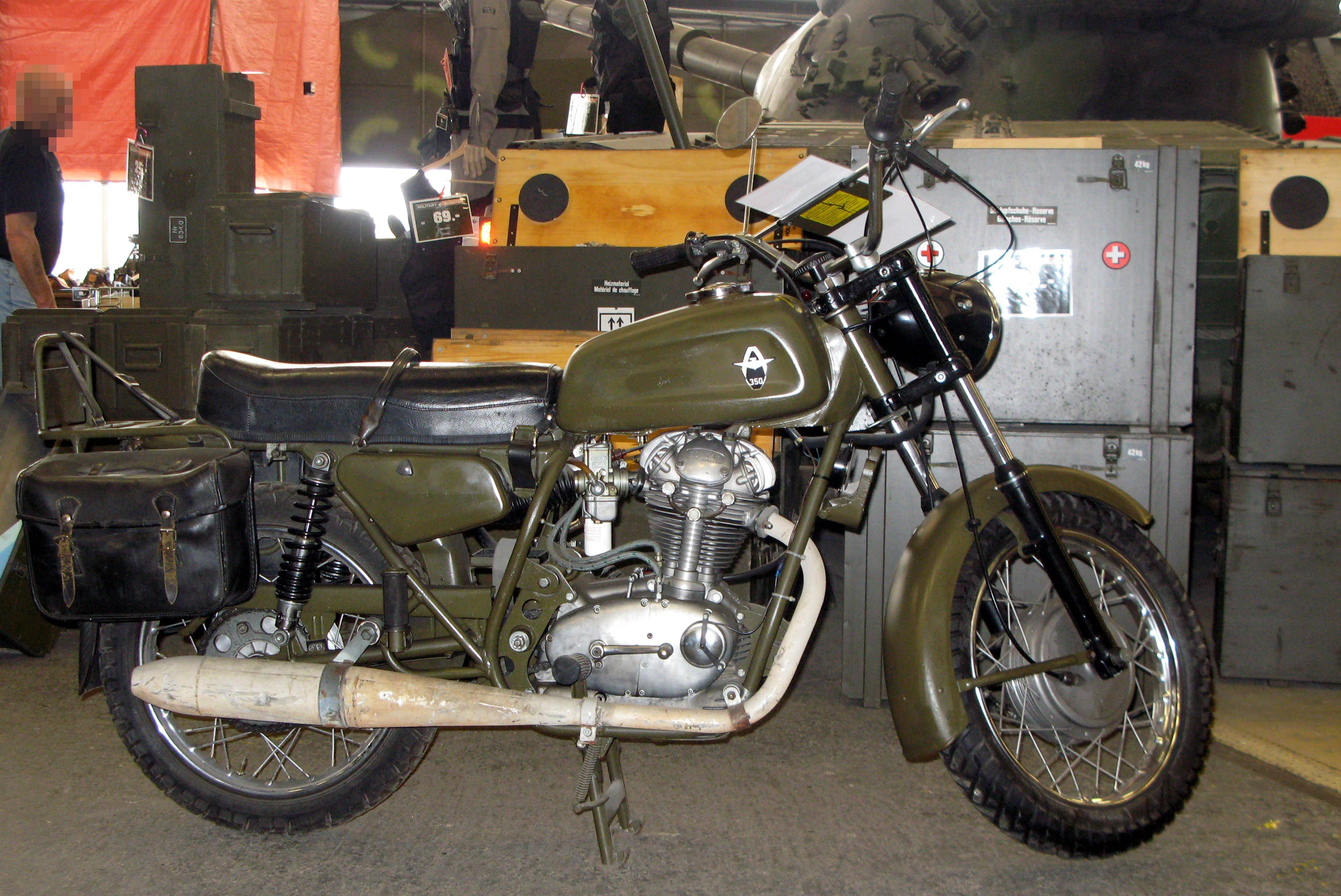 Ex-Swiss Army military Condor A350 motorcycle